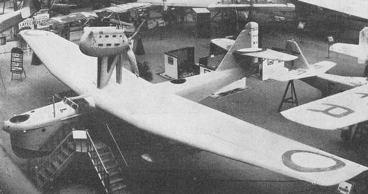 Amiot 110-S photo from L'Aerophile December 1932